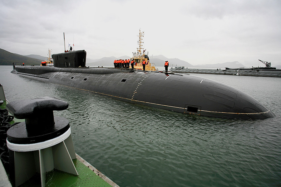 Alexander Nevsky in Vilyuchinsk.